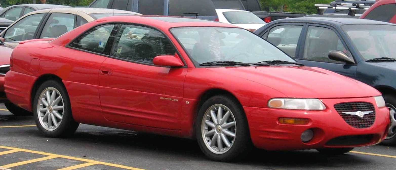 1995-2000 Chrysler Sebring photographed in Clinton, Maryland, USA.